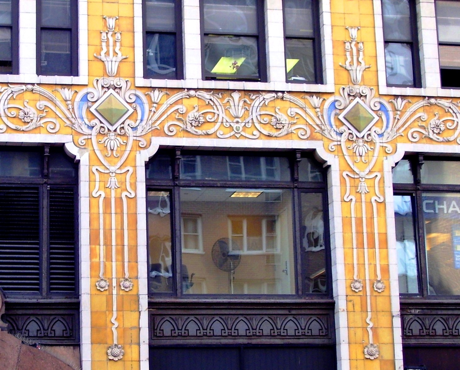 Closeup of the decoration on 154-160 West 14th Street, on the corner of Seventh Avenue in Manhattan, New York City. It was designed by Herman Lee Meader in a style hinting of Art Nouveau and anticipating Art Deco. The loft building dates from 1913. (Source: AIA Guide to NYC (4th ed.))